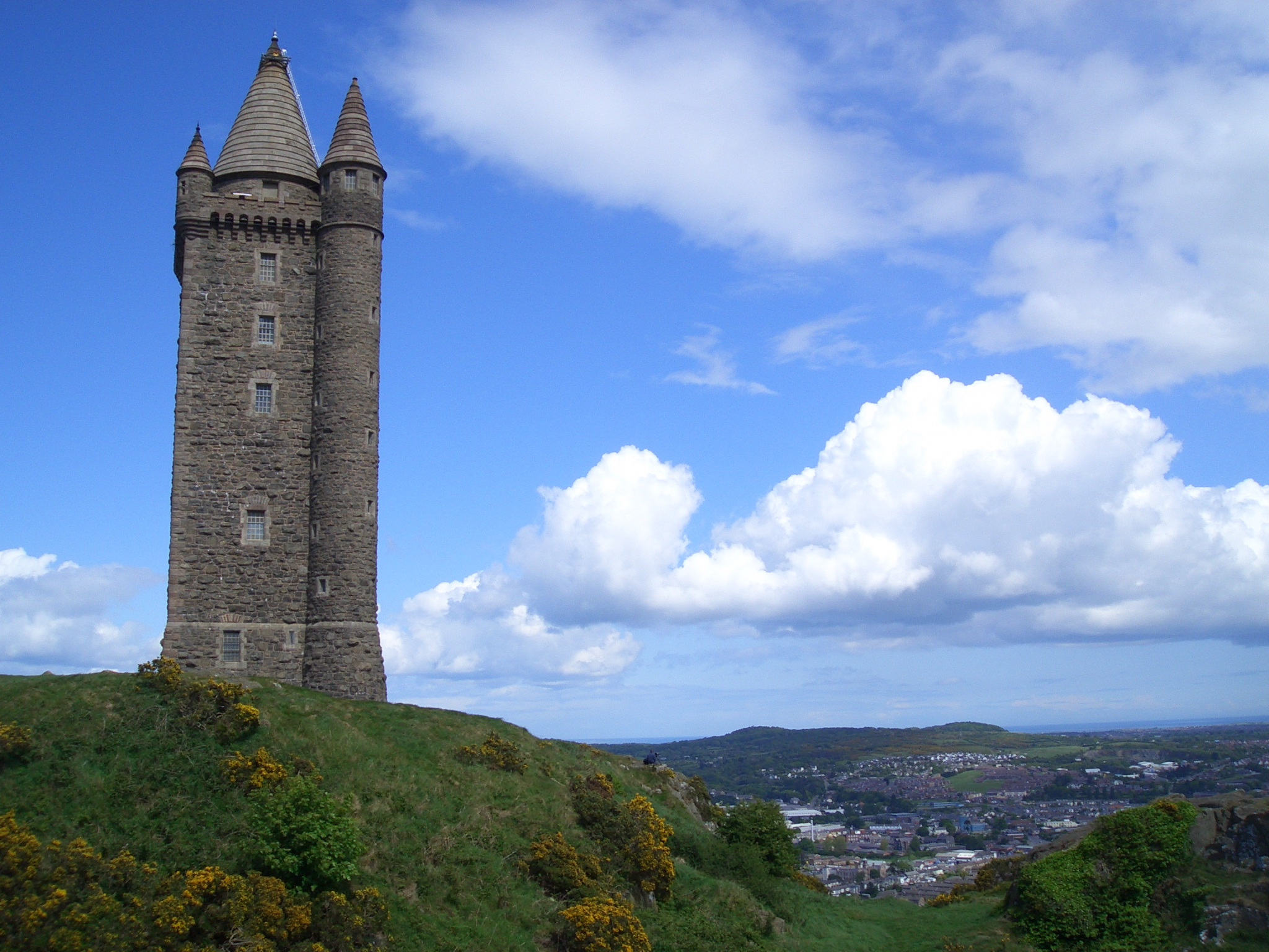 View of Newtownards and Scrabo Tower in County Down, Northern Ireland (Taken with Casio Exilim EXS100 on Sunday 20th May 2007 at 13:00)